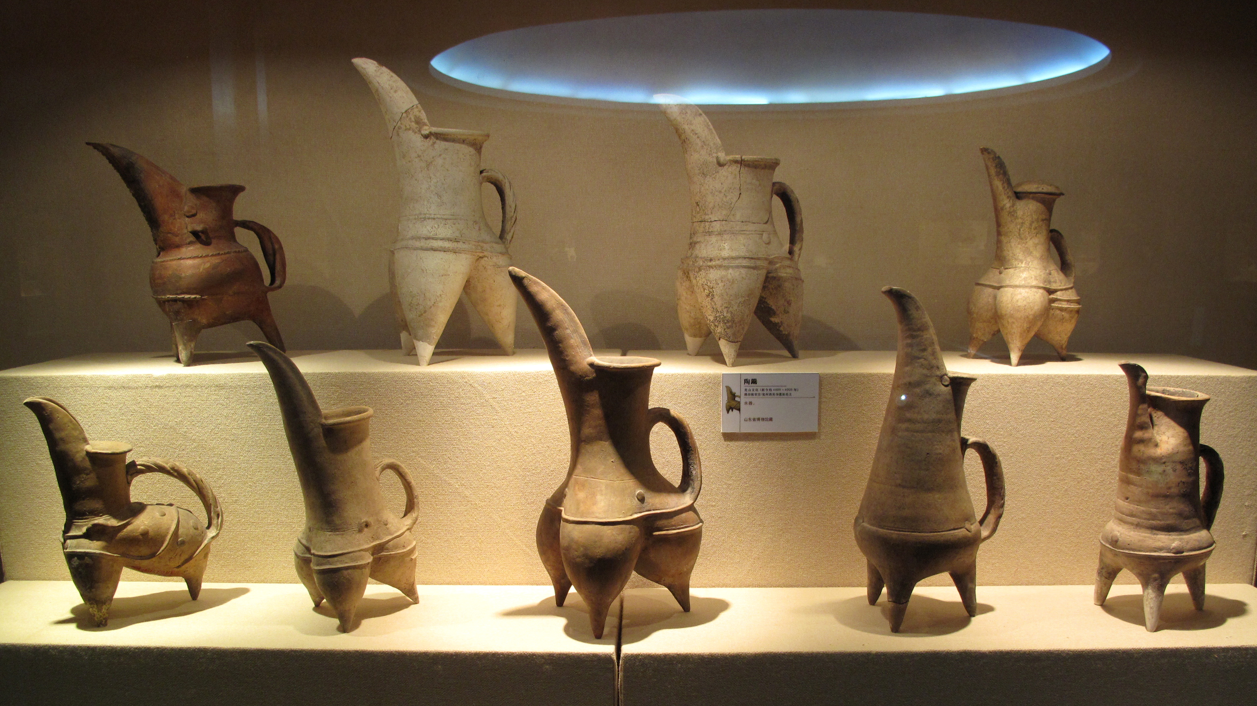 Tripod Pitchers. Longshan, 2600-2000 BC. Shandong Provincial Museum, Jinan These white-pottery pitchers were made for heating and pouring wine; their legs are hollow. In later times, bronze jue served a similar function.